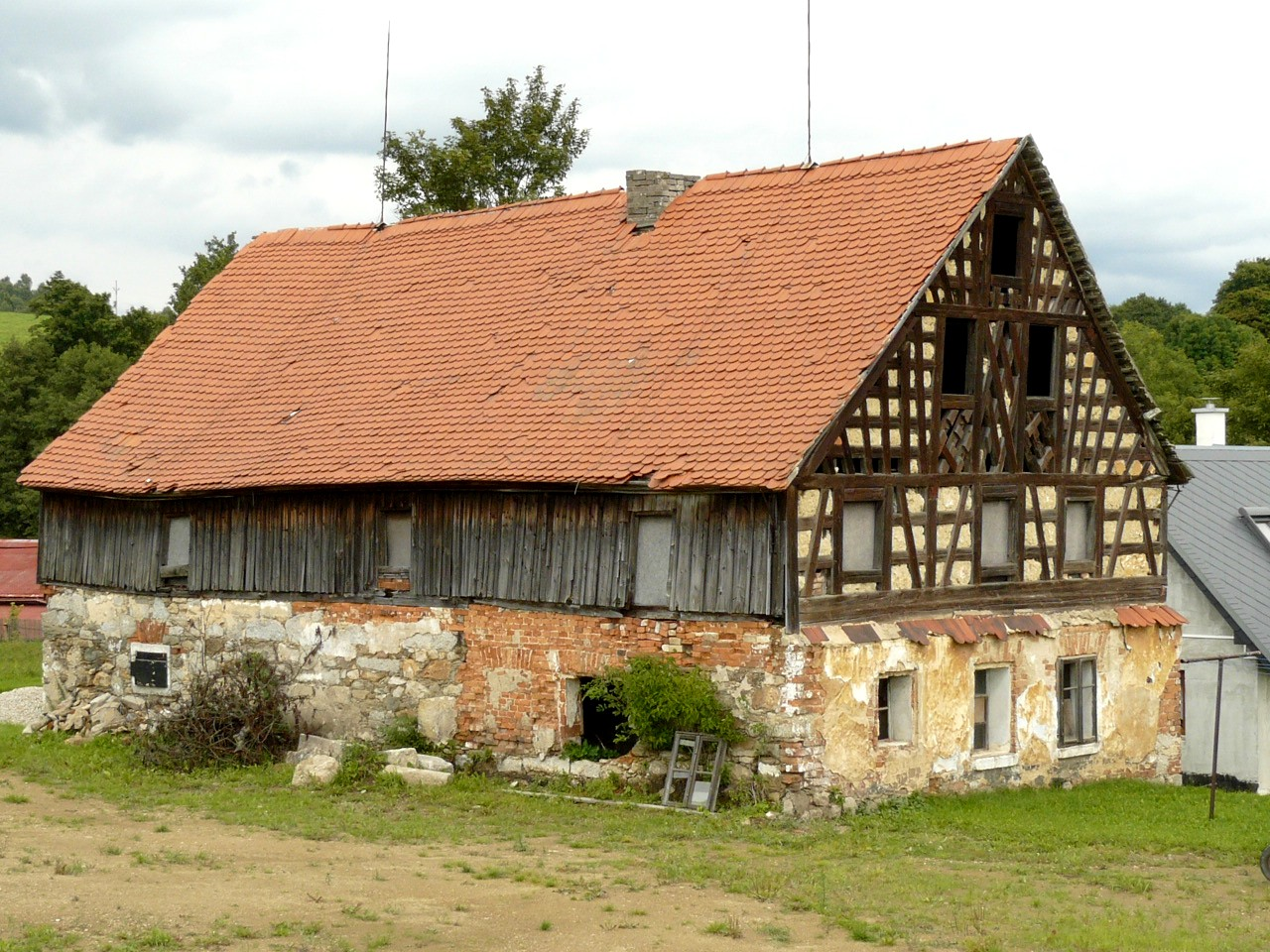 This photograph was taken within the scope of the second year of the 'Czech Municipalities Photographs' grant.